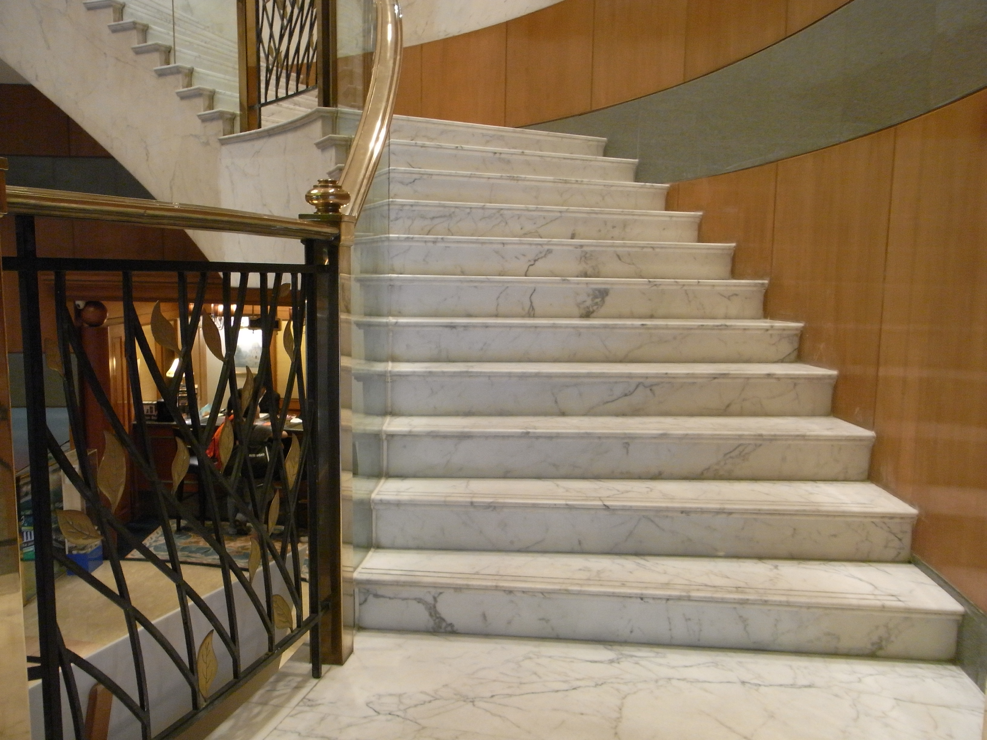 灣仔道利景酒店